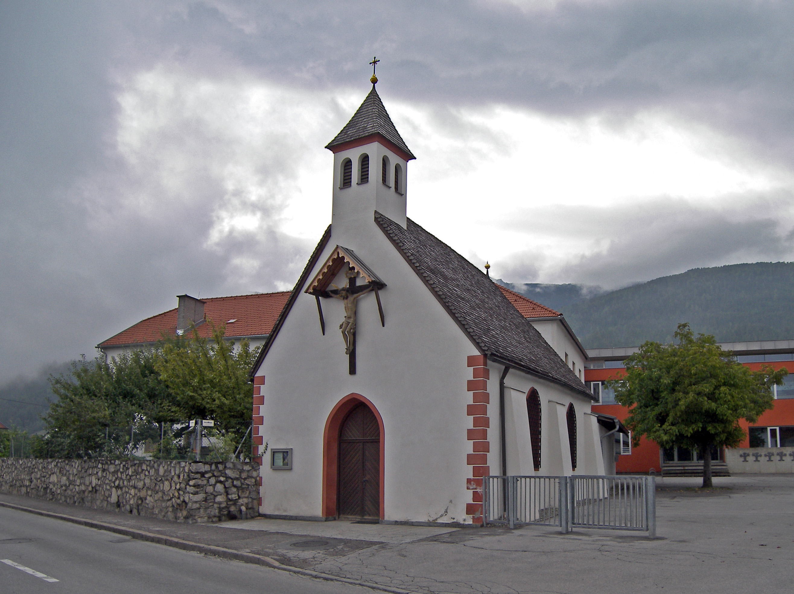 The Theresienkirche in Götzens was first documented 1350